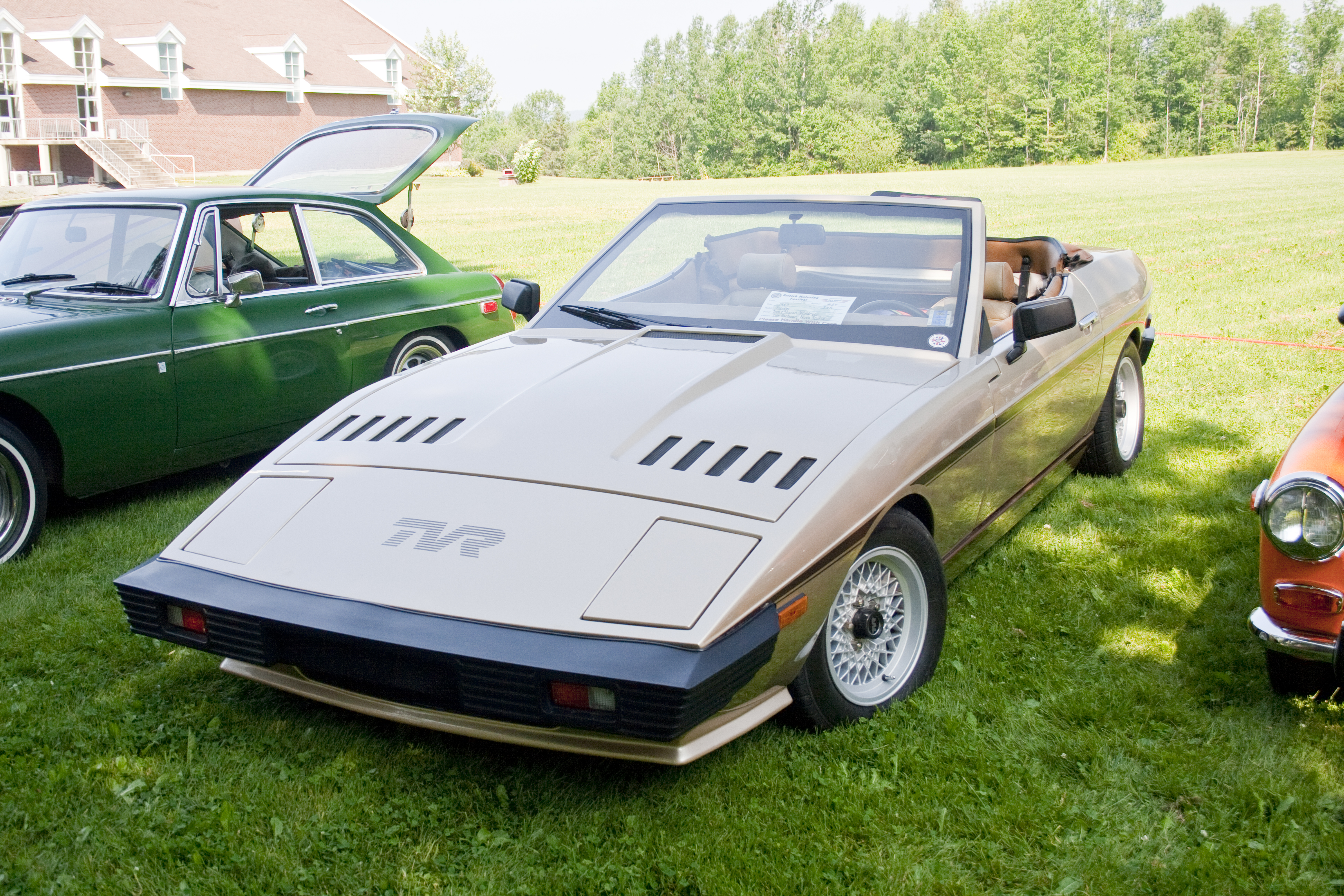 TVR Tasmin